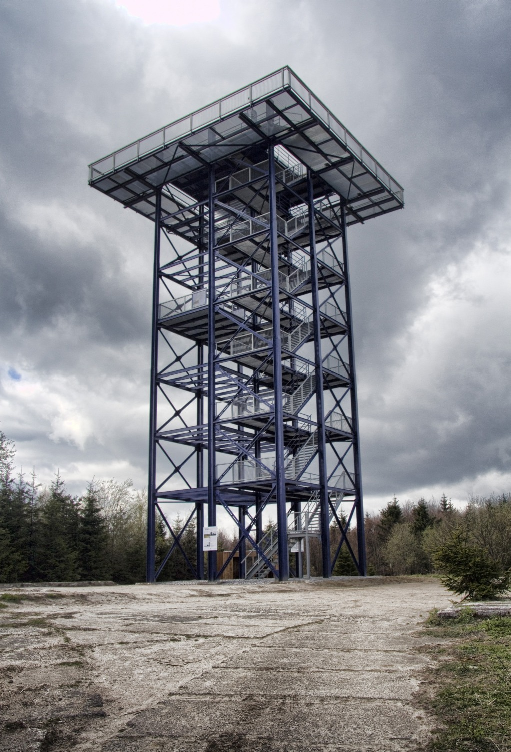 Havran viewtower after rebuild.